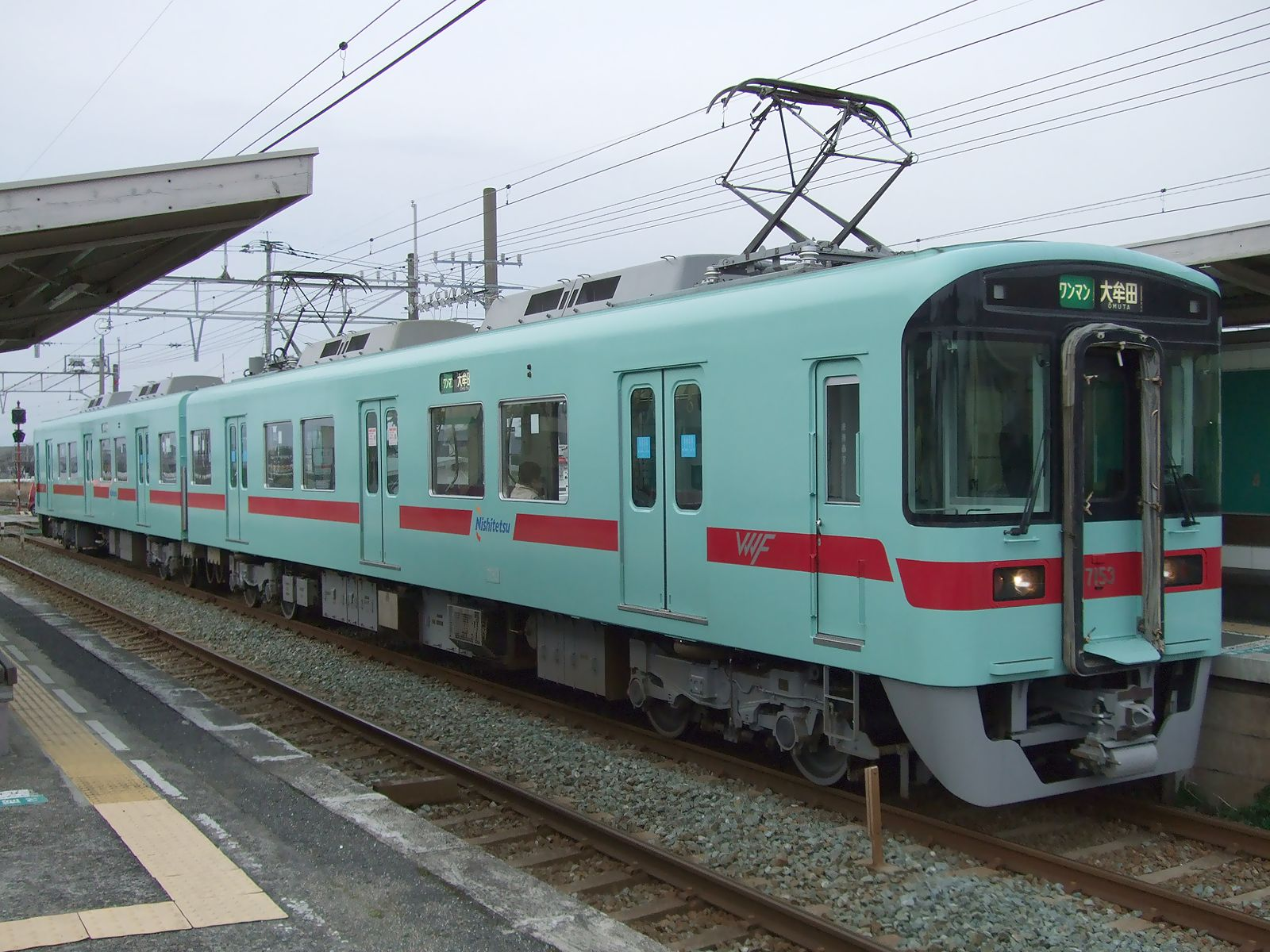 Nishi Nippon Railroad EMU Type7000. Location:Nishitetsu Wataze station, Omuta, Fukuoka, Japan. Formation:7153-7553